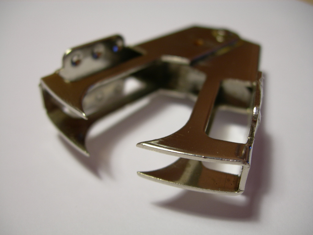 Tool for removing staples.